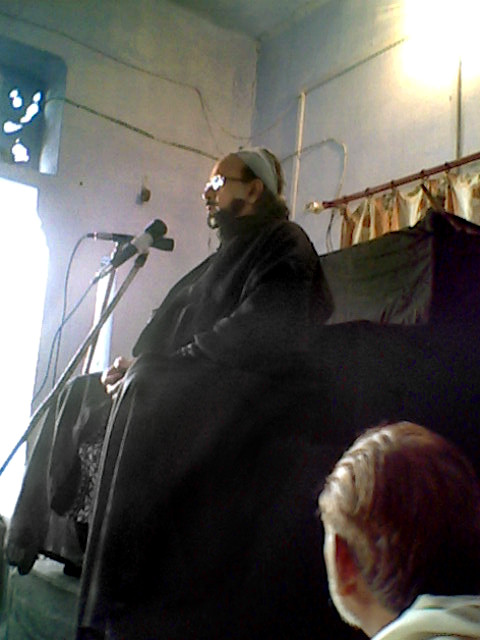 Syed Ali Nasir Saeed Abaqati addressing majlis-e-ehsaal-e-sawab on occasion of panjum of Syed Tajammul Hussain Kazmi alias Ali Mian (Ex Pradhan & Block Pramukh deceased on 2010-12-17) at deceased's resident in Village Sheikhpur, Tehsil Mahmudabad, Sitapur district, Uttar Pradesh on 2010-12-21. This photo was taken by Sayed Mohd Faiz Haider (talk) on 21 December 2010, 11:36:38.